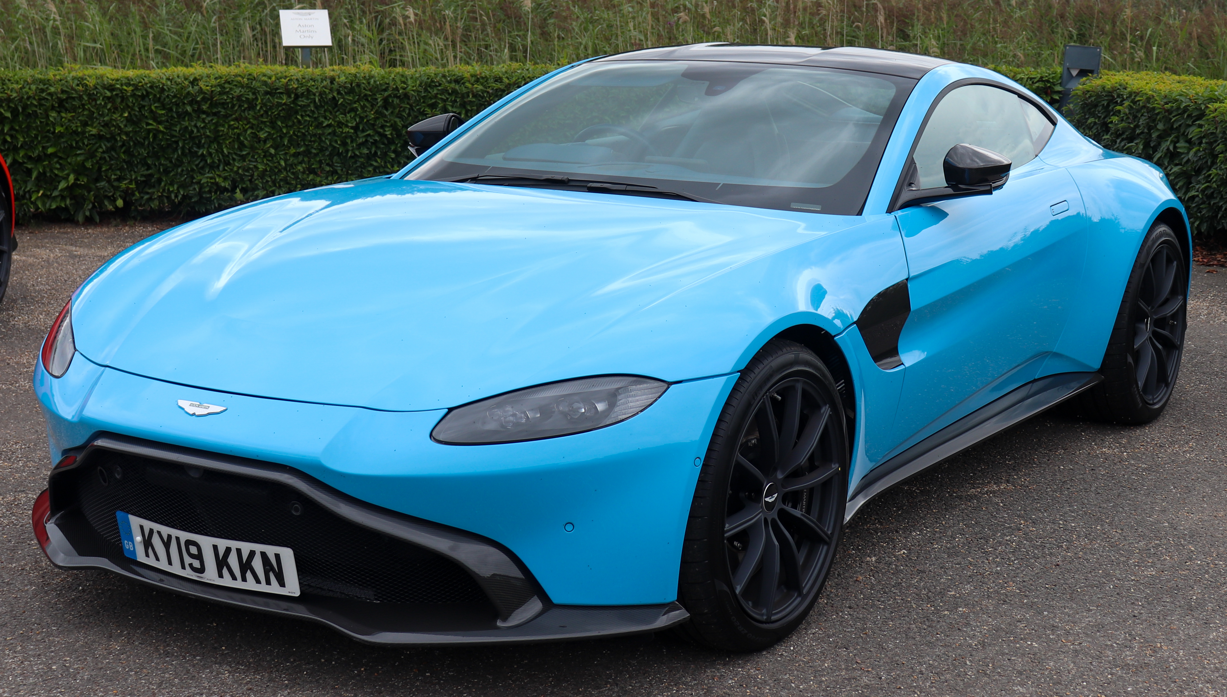 2019 Aston Martin Vantage V8 Automatic 4.0 Front Taken at the Aston Martin Lagonda factory, Gaydon